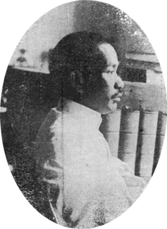 Mr. Kishie Tezuka.